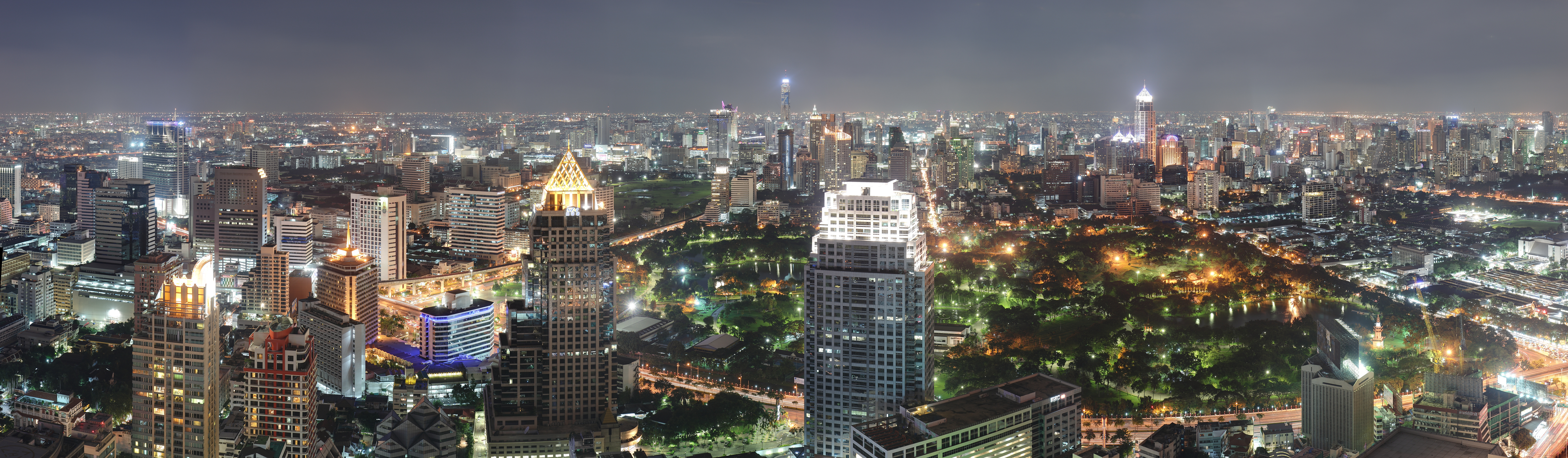 Bangkok at night, seen from top of Banyan Tree Hotel.